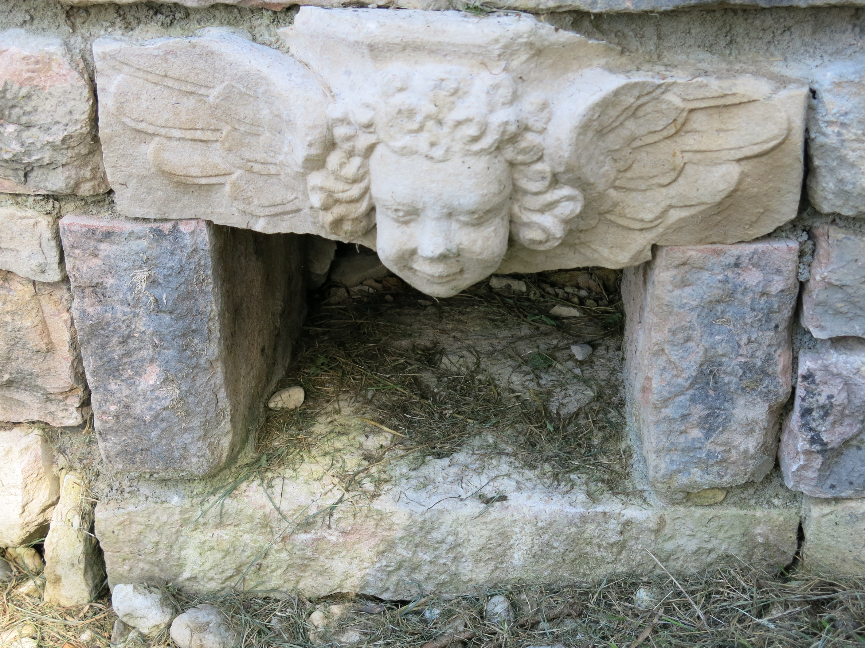 The Fontaine à chagrin (=fountain of sorrow) on the road from Lacrost to Préty (Saône-et-Loire, France).